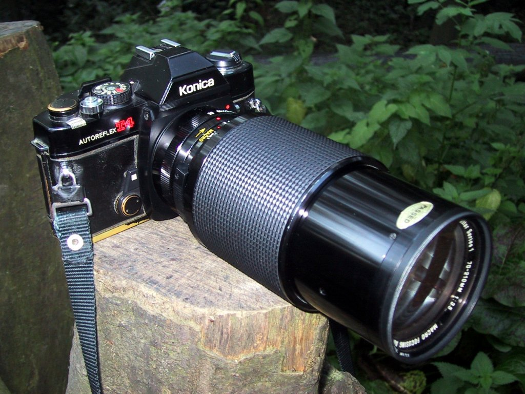 My baby :-) See here for the ultimate Konica-SLR-Page. Lens is Vivitar Series 1 70-210mm 1:3.5 macro focusing auto zoom. Yes, that's a mouthfull :-) I like it. It's the oldest variant - as old as I am.